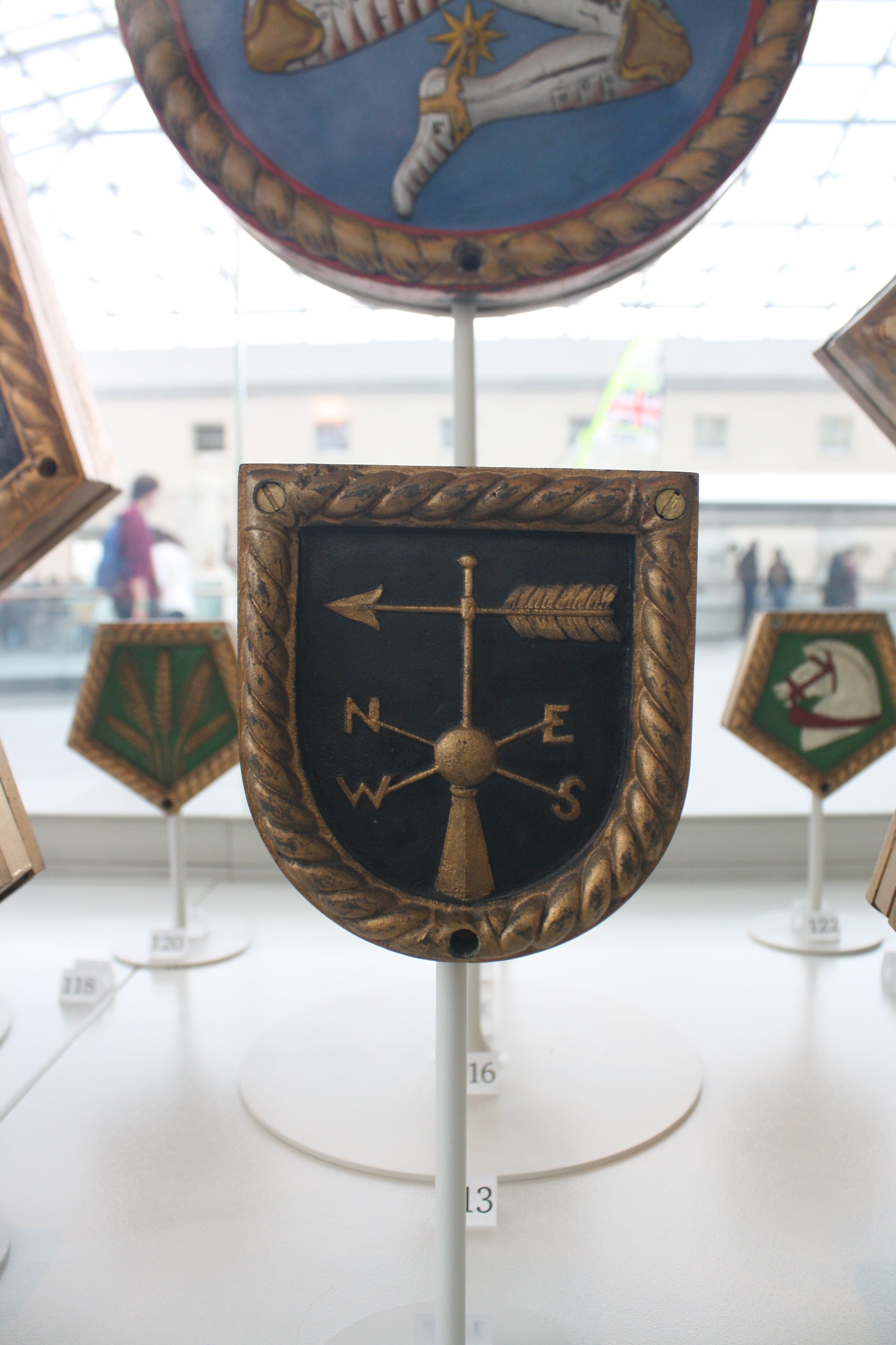 Ship heraldry at the NMM